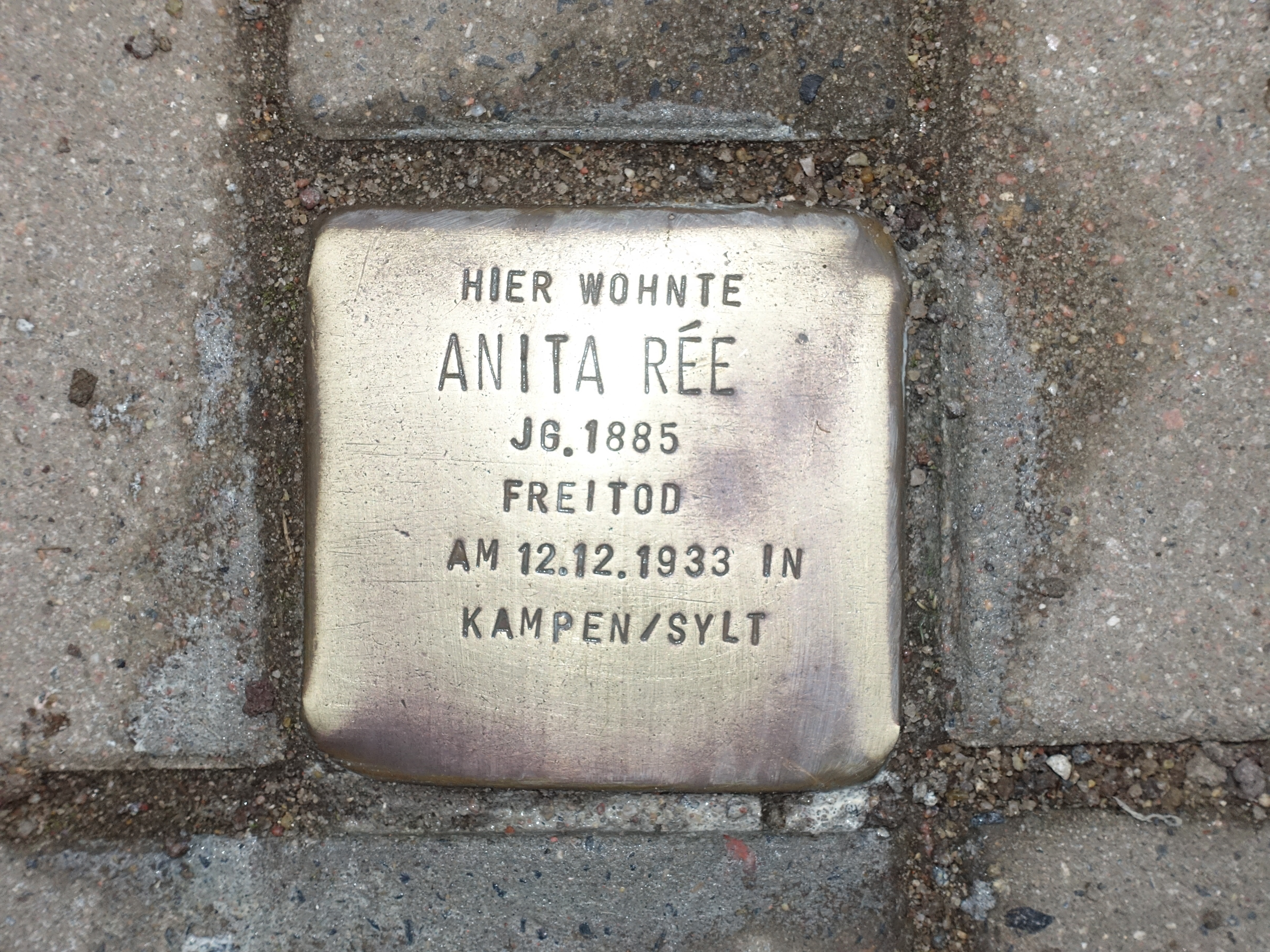 Stolperstein for the artist Anita Ree, Fontenay 11, Hamburg/Germany, who being persecuted by the Nazis, choose to commit suicide in December 1933.